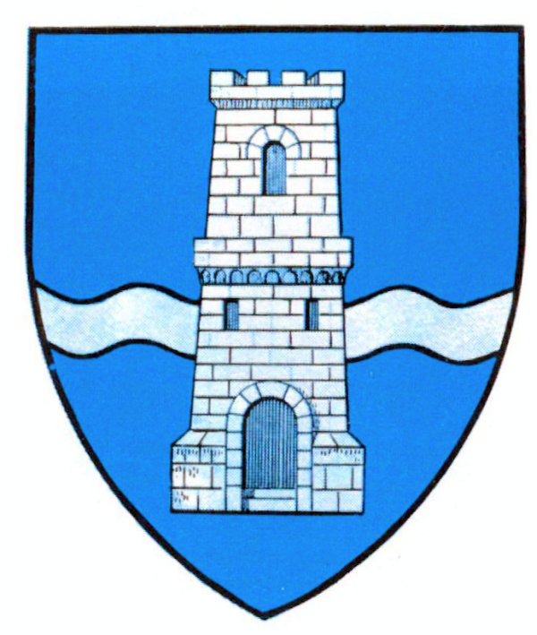 Interwar coat of arms of Olt County, Kingdom of Romania.